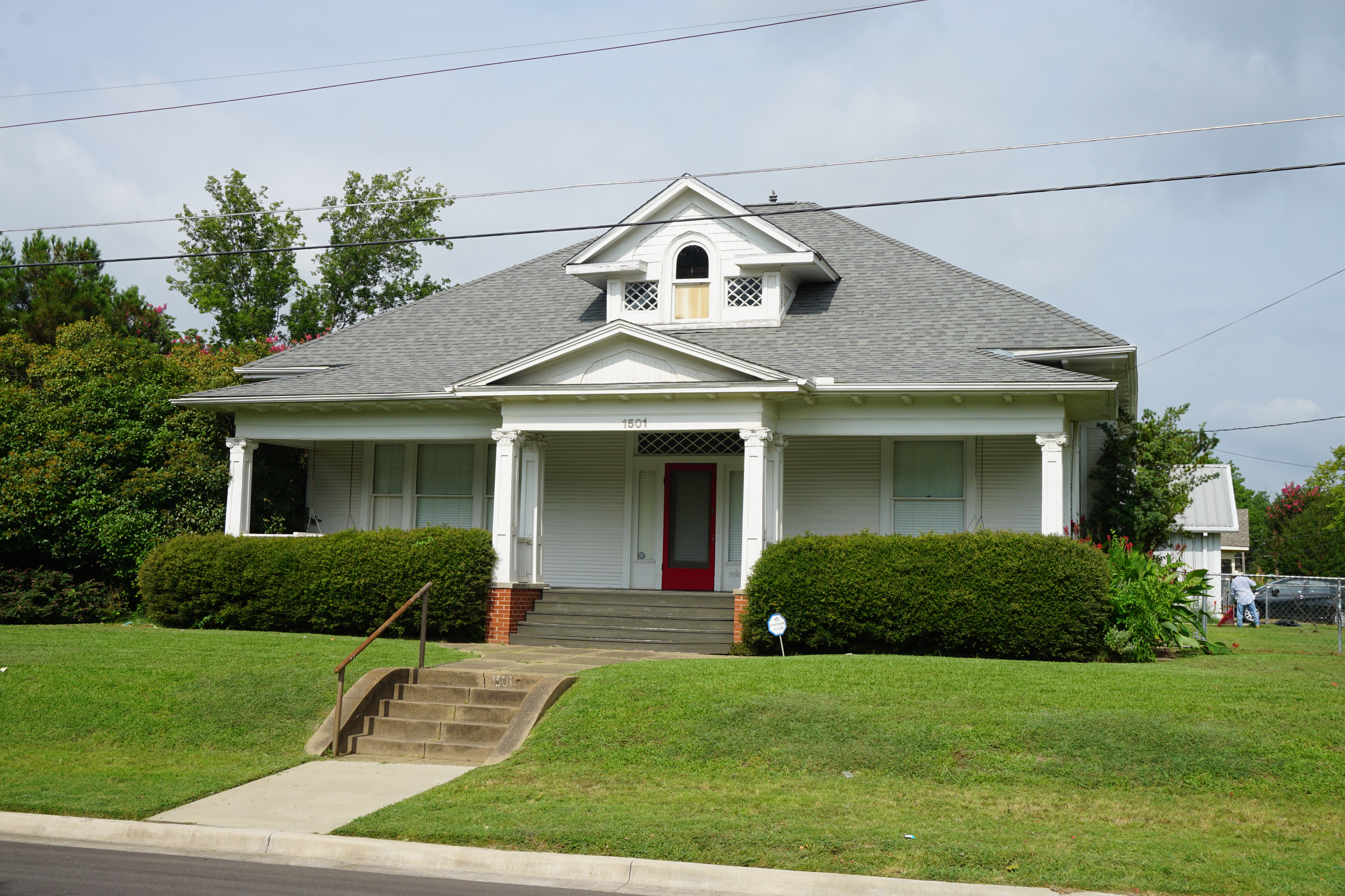 The Claire Lee Chennault Birthplace in Commerce, Texas (United States).